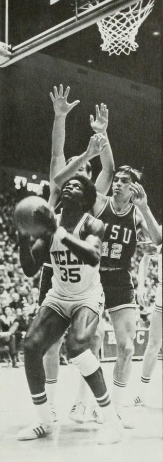 Photograph of UCLA basketball player Sidney Wicks